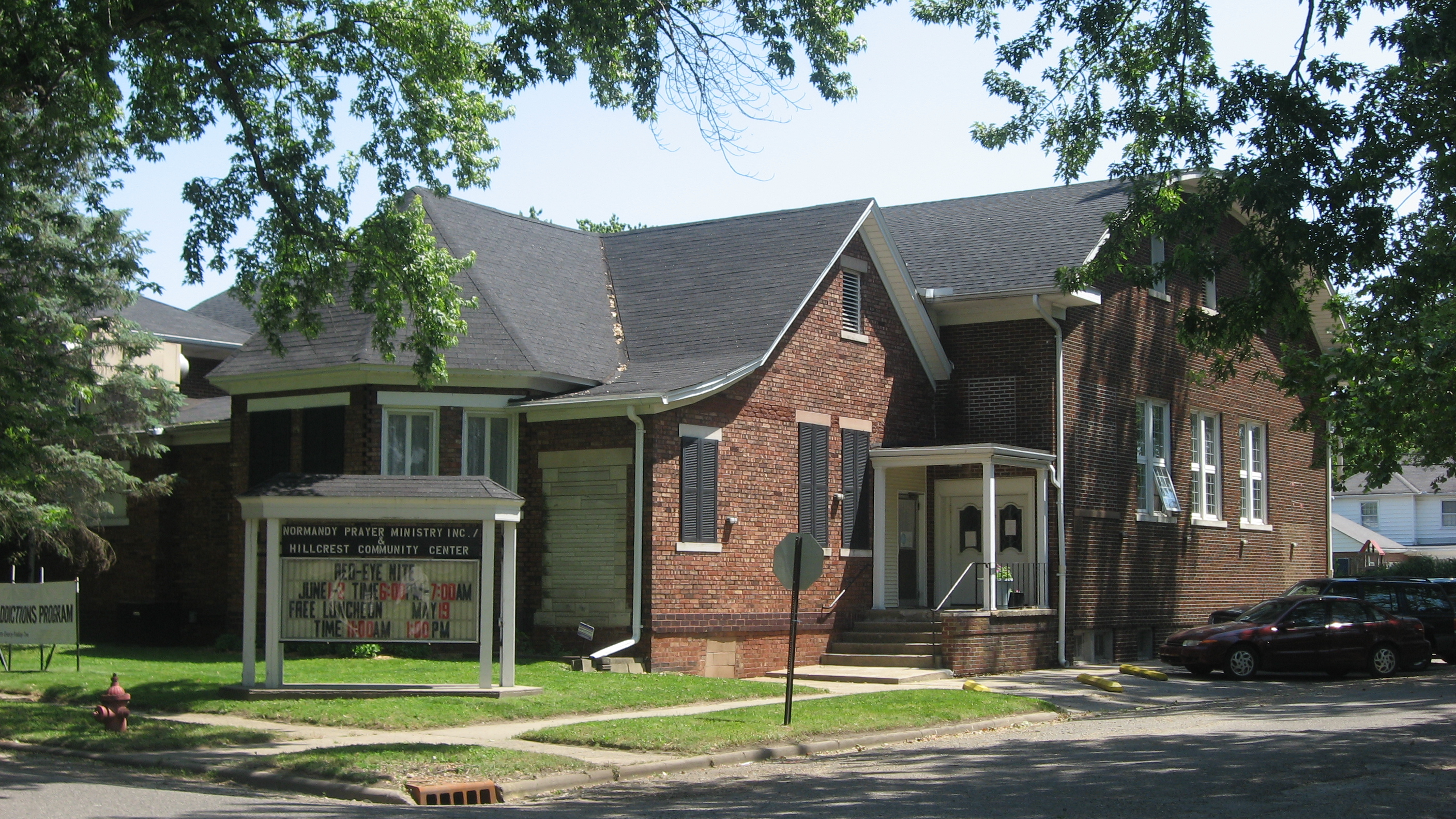 Front and eastern side of the Hill Crest Community Center, located at 505 N. Eighth Street in Clinton, Indiana, United States. Built in 1911, it is listed on the National Register of Historic Places.